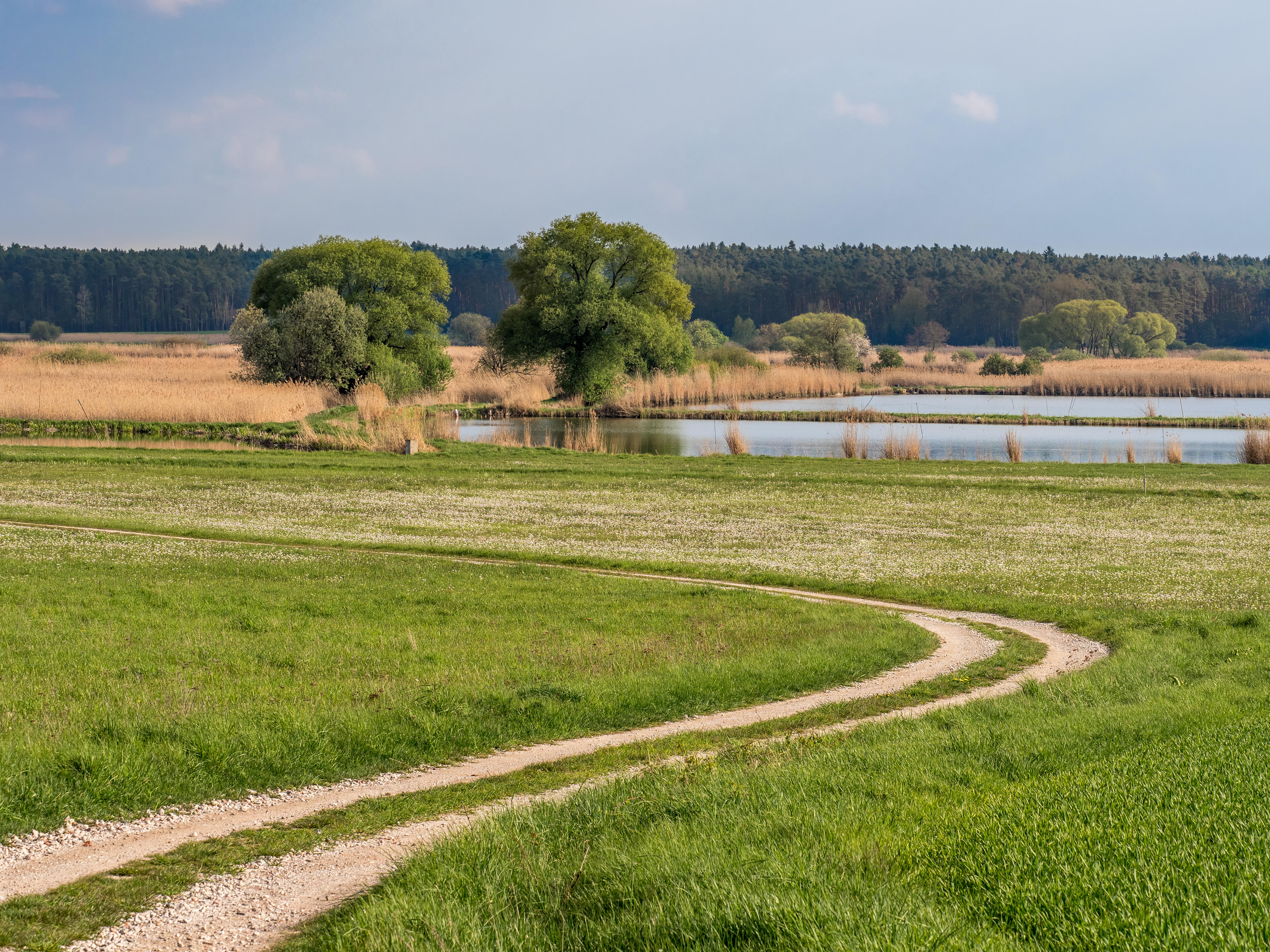 Bird reserve Mohrhof